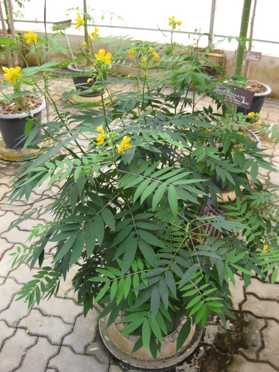 Photographed at the Queen Sirikit Botanic Garden (Chiang Mai Province, Thailand) in March